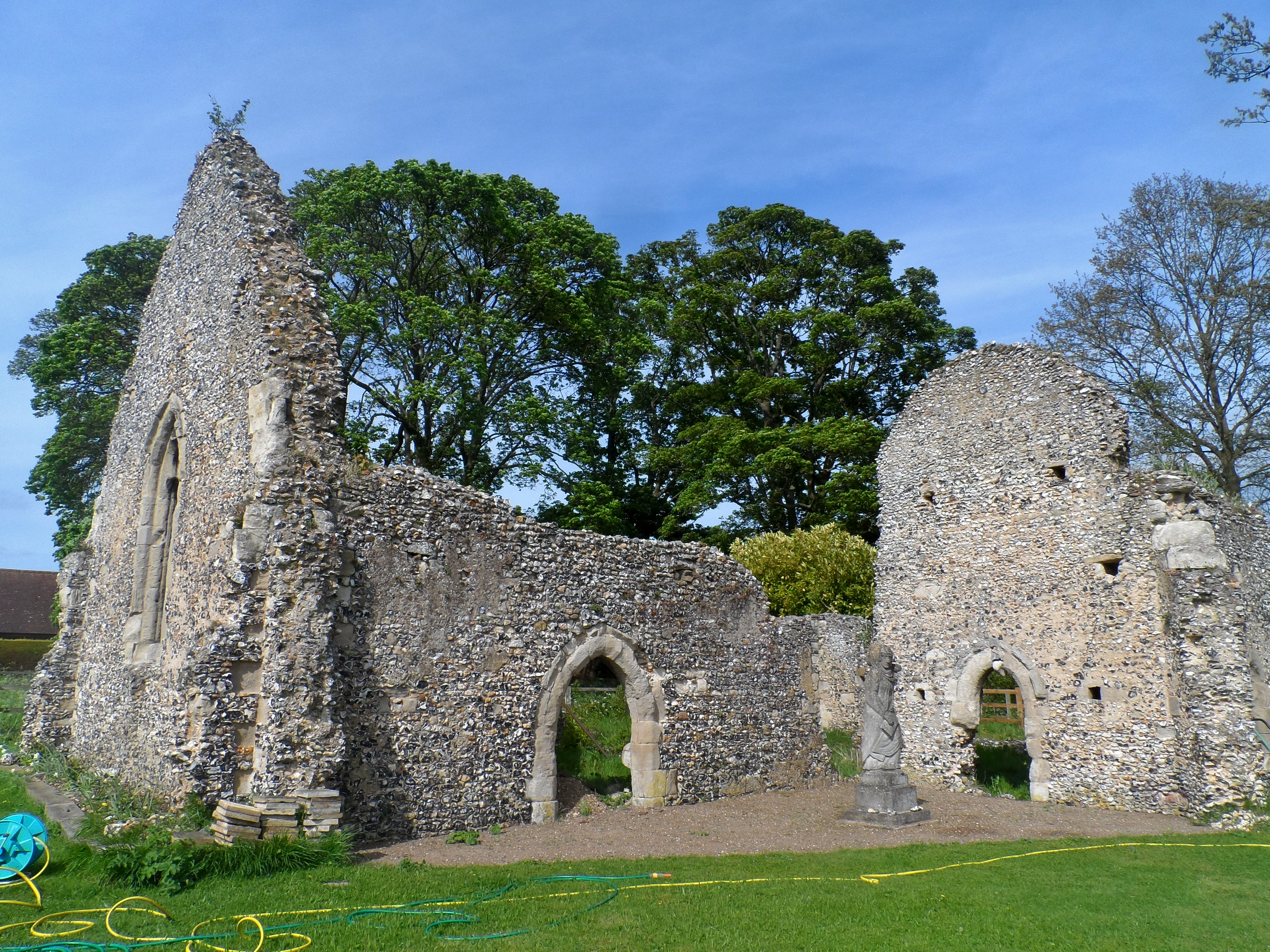 The ruin of St Etheldreda's, a medieval church at Chesfield, Hertfordshire. The statue is modern